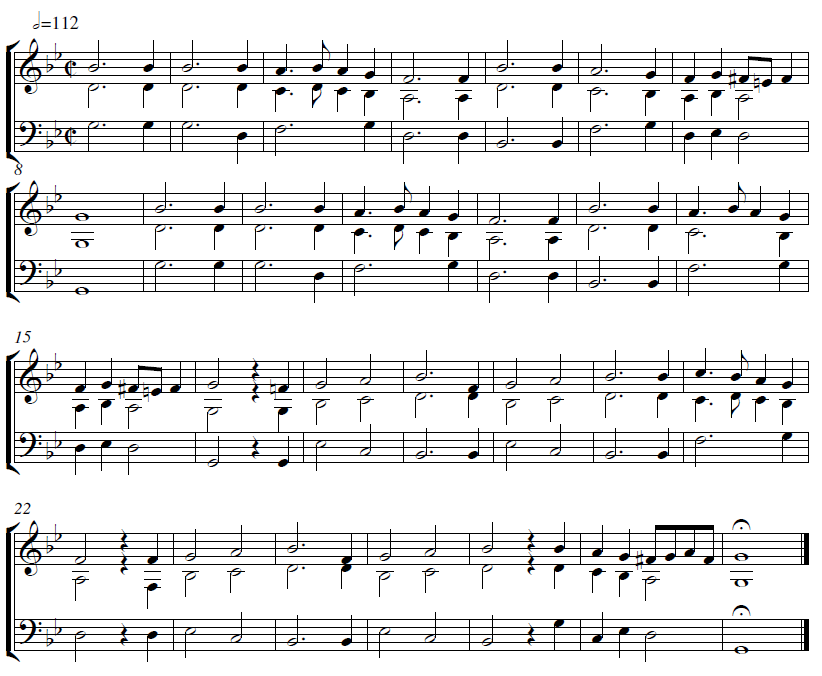 Modern Notation based on British Library MS 31922 (MIDI file included.); Eb added to Key Signature; Ficta Signs added; Rests in Measure 22 from MS C4; Rests in Measures 16 and 26 from MS Bass.